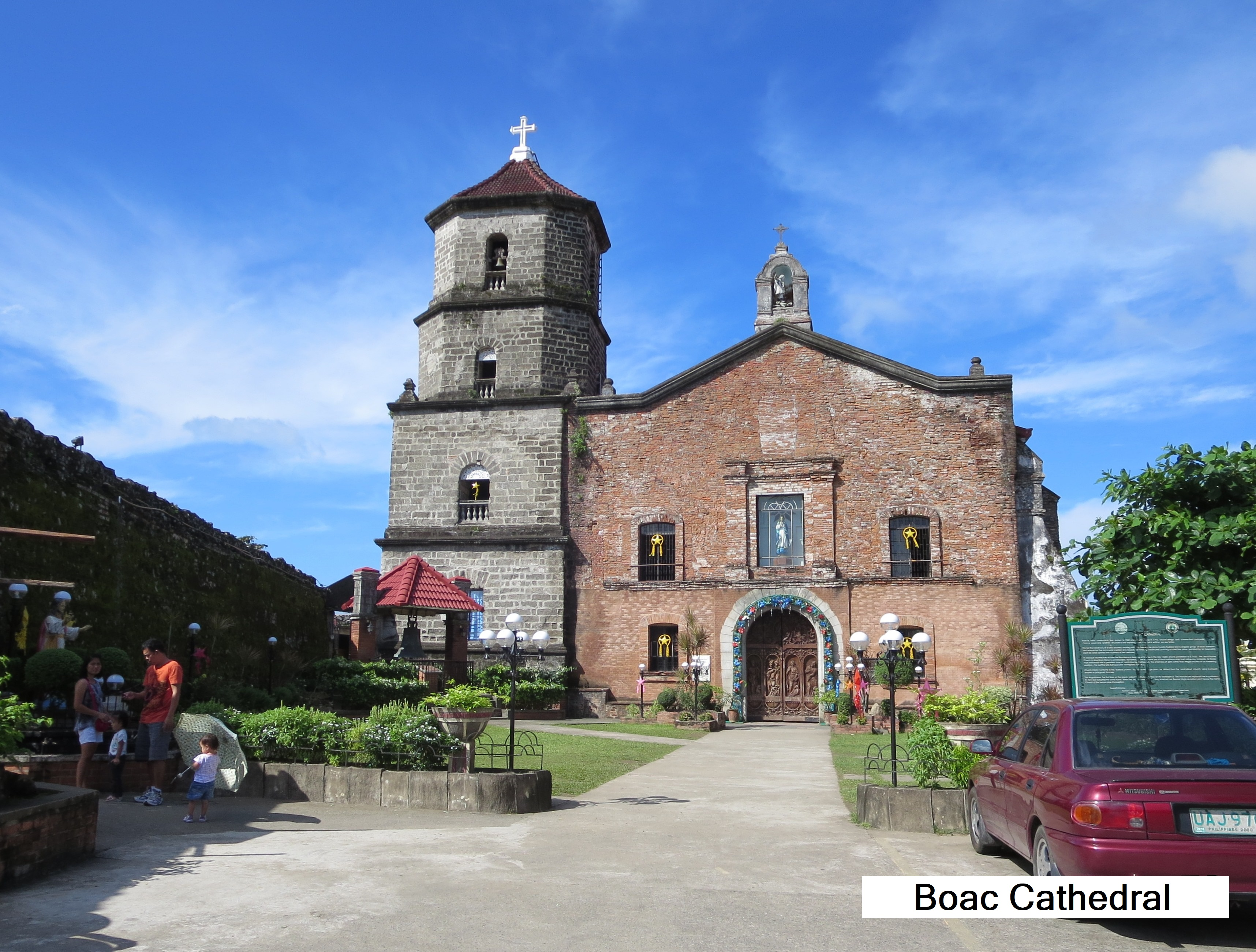 Boac Cathedral and Fortress in Mataas na Bayan, Boac